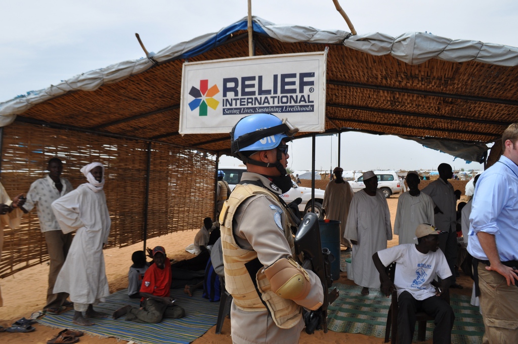 A humanitarian NGO tent in the Abu Shouk IDP Camp.